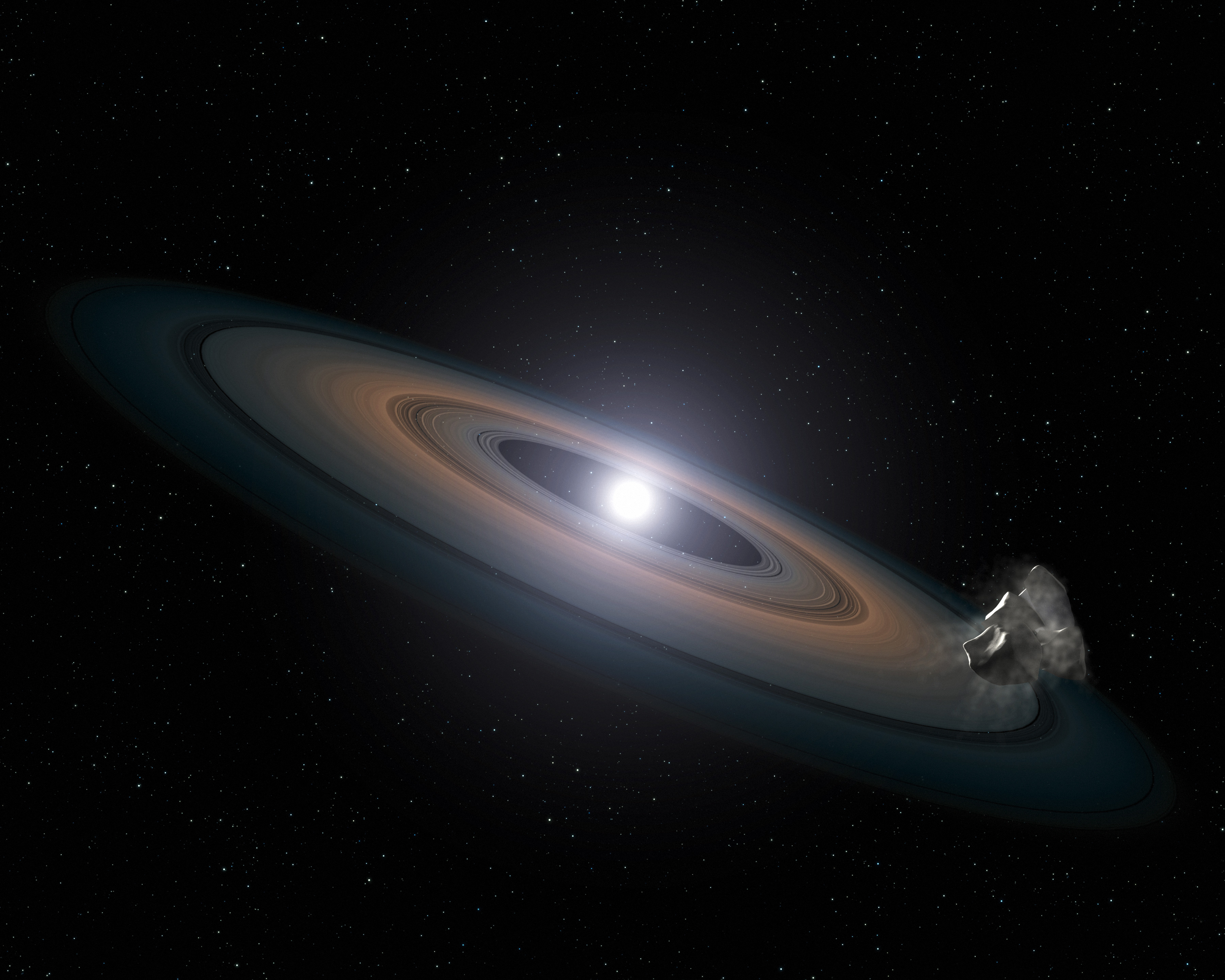 This illustration is an artist's impression of the thin, rocky debris disc discovered around the two Hyades white dwarfs. Rocky asteroids are thought to have been perturbed by planets within the system and diverted inwards towards the star, where they broke up, circled into a debris ring, and were then dragged onto the star itself.